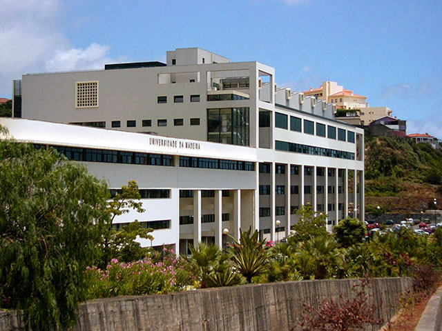 University of Madeira Campus da Penteada Funchal, Portugal